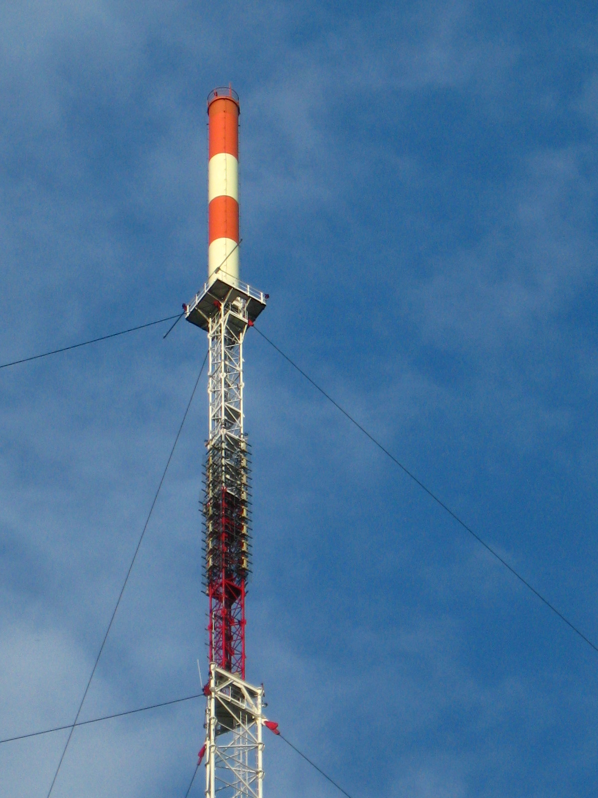 RTBC - top of the main mast of height of 331m. Circular antenna of type EAP 303 at height of 282.8m, 8 floors high, on 4 sides, polarization horizontal, gain 12dB, resistance 2.1dB, transmitting at frequency of 191.25MHz (TVP1). Circular antenna of type ADT 8015 at height of 313m, 16 floors high, on 4 sides, polarization horizontal, gain 15.46dB, resistance 2.1dB, transmitting at frequency of 479.25MHz (TVP2).